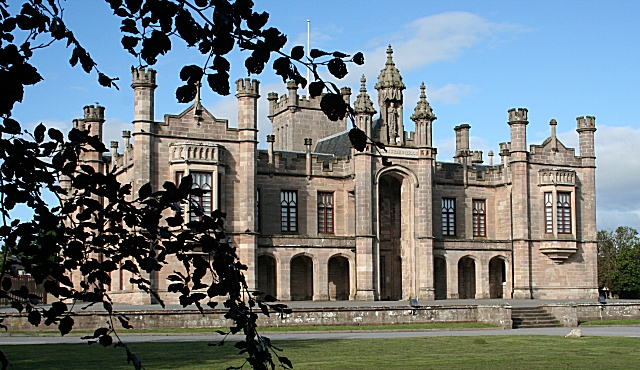 Milne's Primary School. Built in 1846 to a design by Thomas Mackenzie, this fine building was superseded as the secondary school when a the new Milne's High School was built. A few years ago there was a major controversy when the council wanted to build a new primary school and abandon this one, but the parents and villagers won the argument and this is still Milne's Primary School.